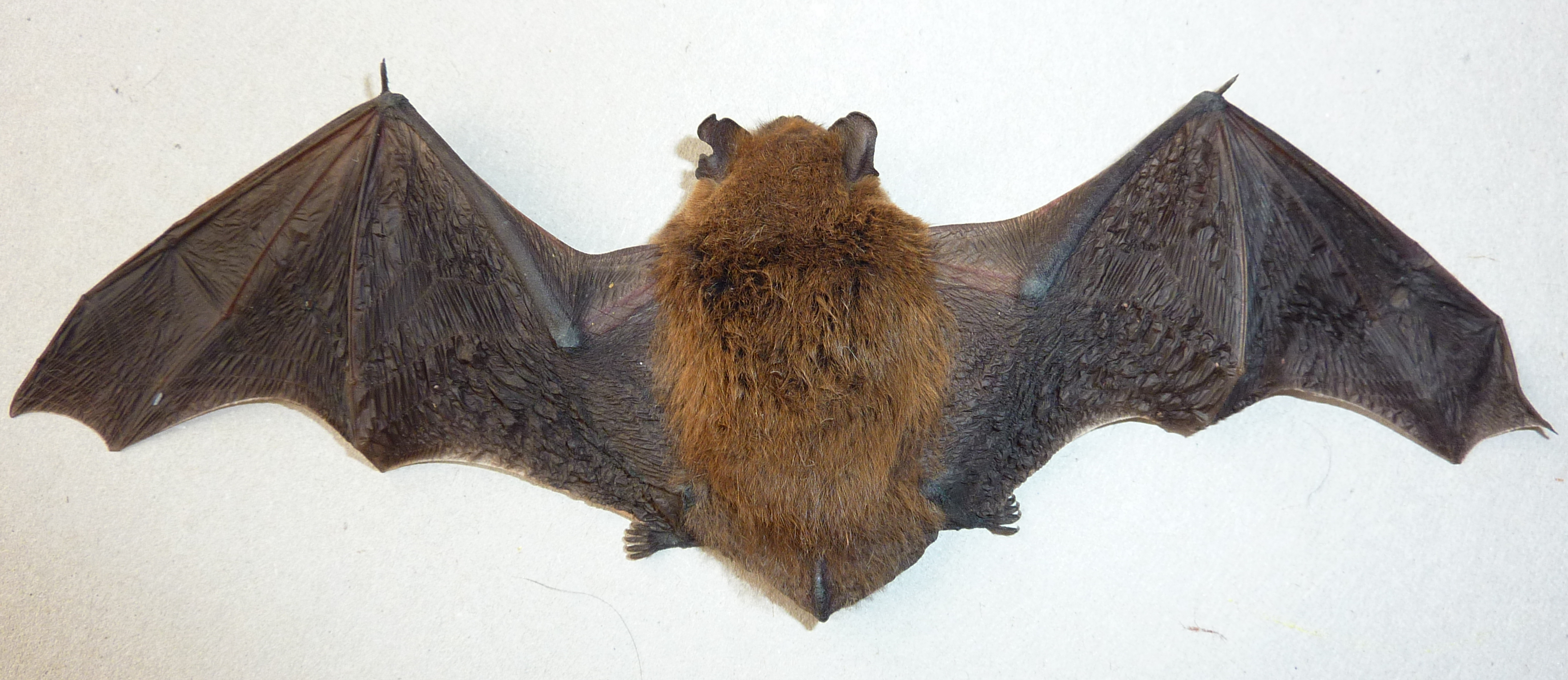 Attic bat, Charente-Maritime (France)